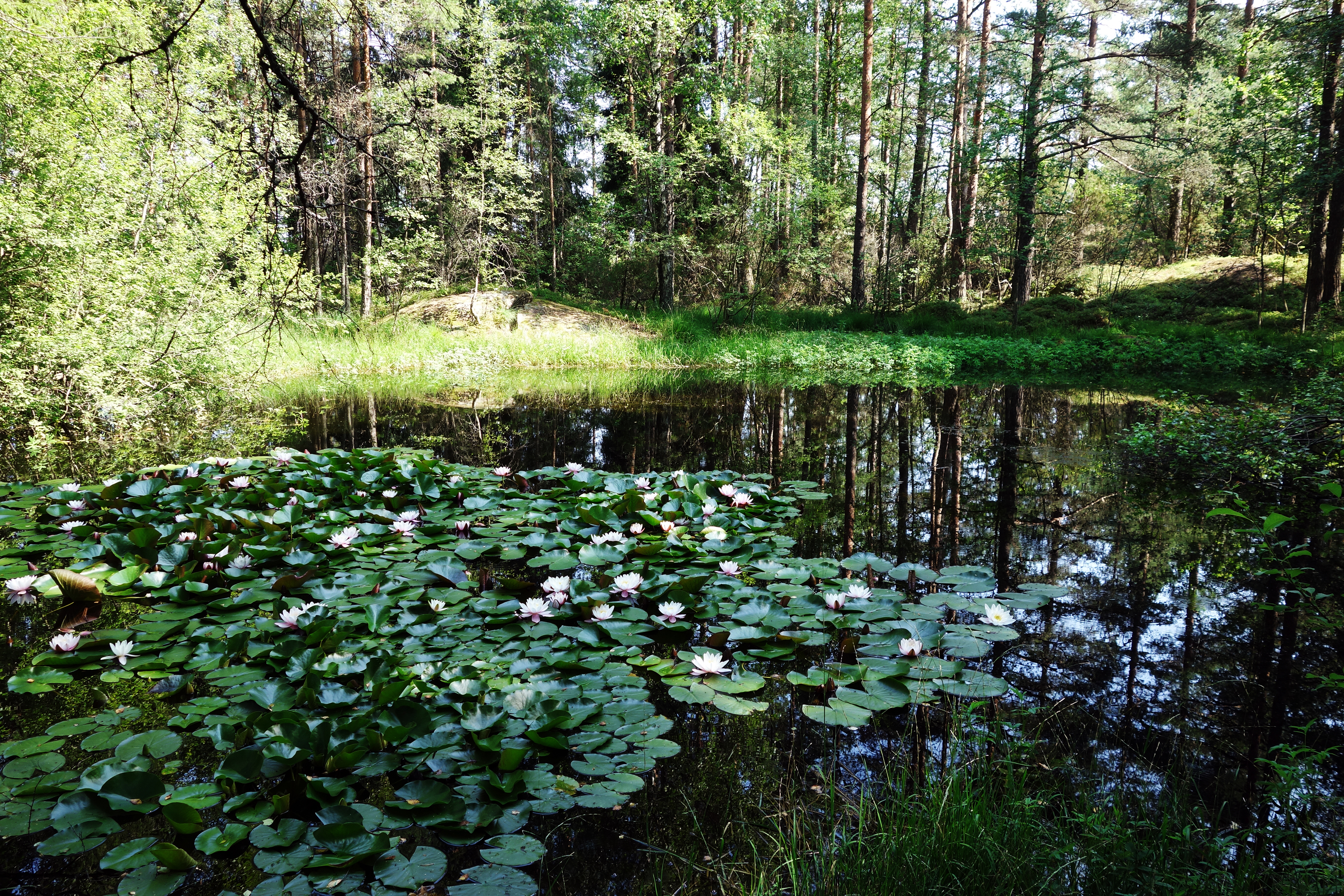 The pond on Semsåsen, Nøtterøy, Norway